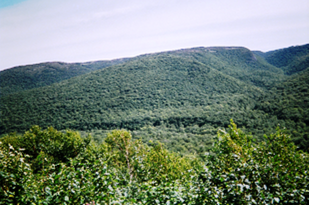 Picture taken from my trip to the Cape Breton Highlands on August 29, 2007. Kuzwa 21:14, 20 September 2007 (UTC)